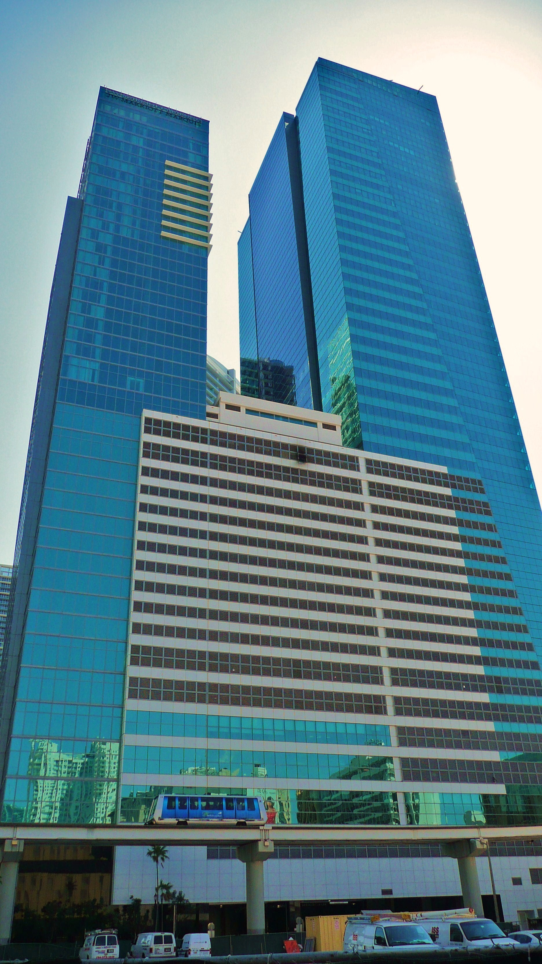 Digital photo taken by Marc Averette. Met 2 in Downtown Miami, Florida, United States.